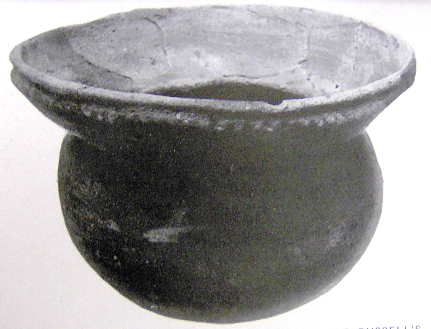 "Unusual" pottery vessel uncovered by archaeologist M.R. Harrington during his excavations on Bussell Island, at the mouth of the Little Tennessee River in Loudon County, Tennessee, USA. This pot belonged to the "Round Grave" culture, which corresponds roughly to the Late Archaic (c. 3000-1000 B.C.) and Woodland (c. 1000 B.C. - 1000 A.D.) periods. The pot's diameter is 6.2 inches (157.48mm).